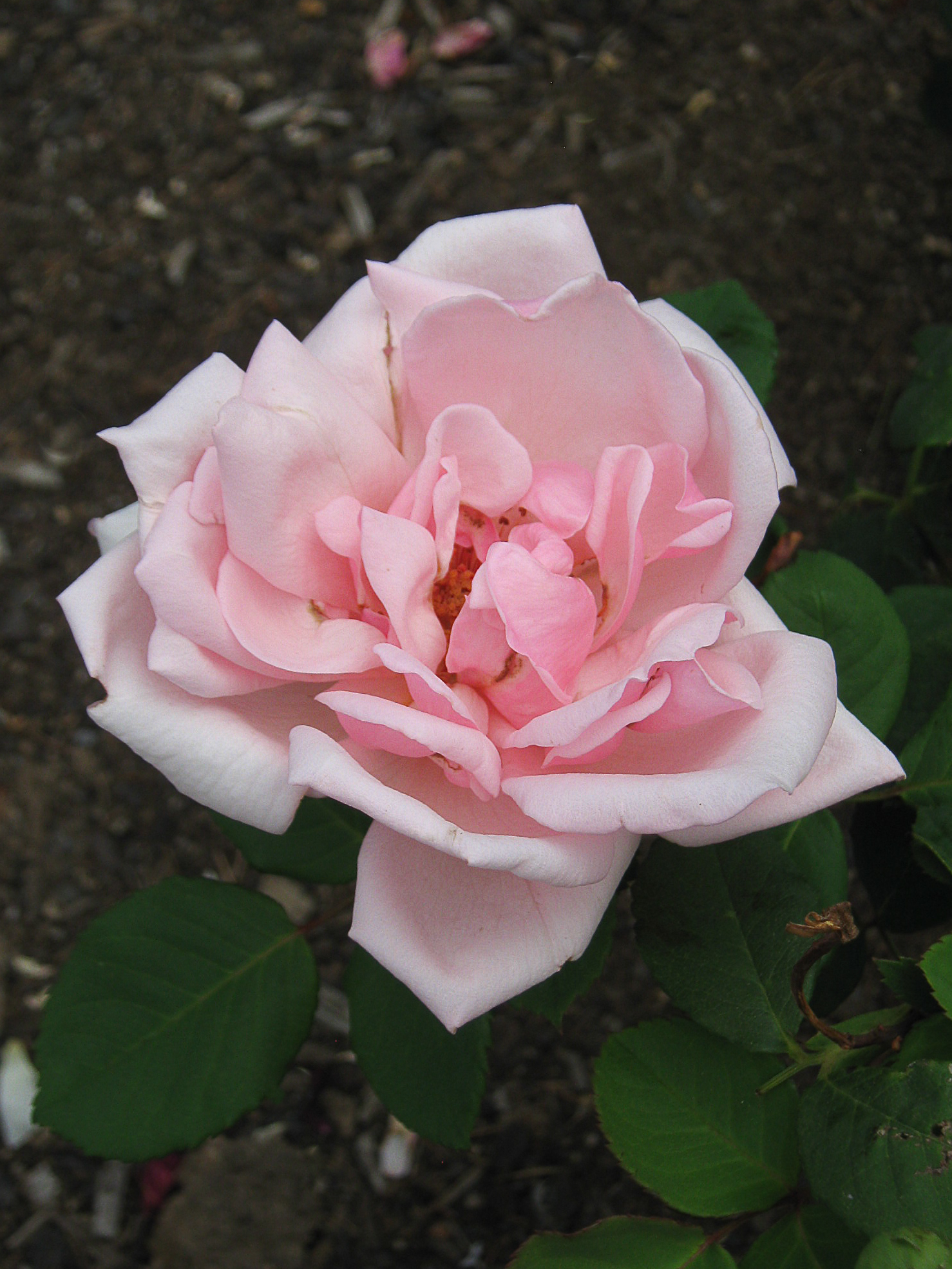 Rose 'Warrawee', Hybrid Tea by Fitzhardinge 1932; photographed in the Nieuwesteeg Heritage Rose Garden, Maddingley Park, Bacchus Marsh, Victoria